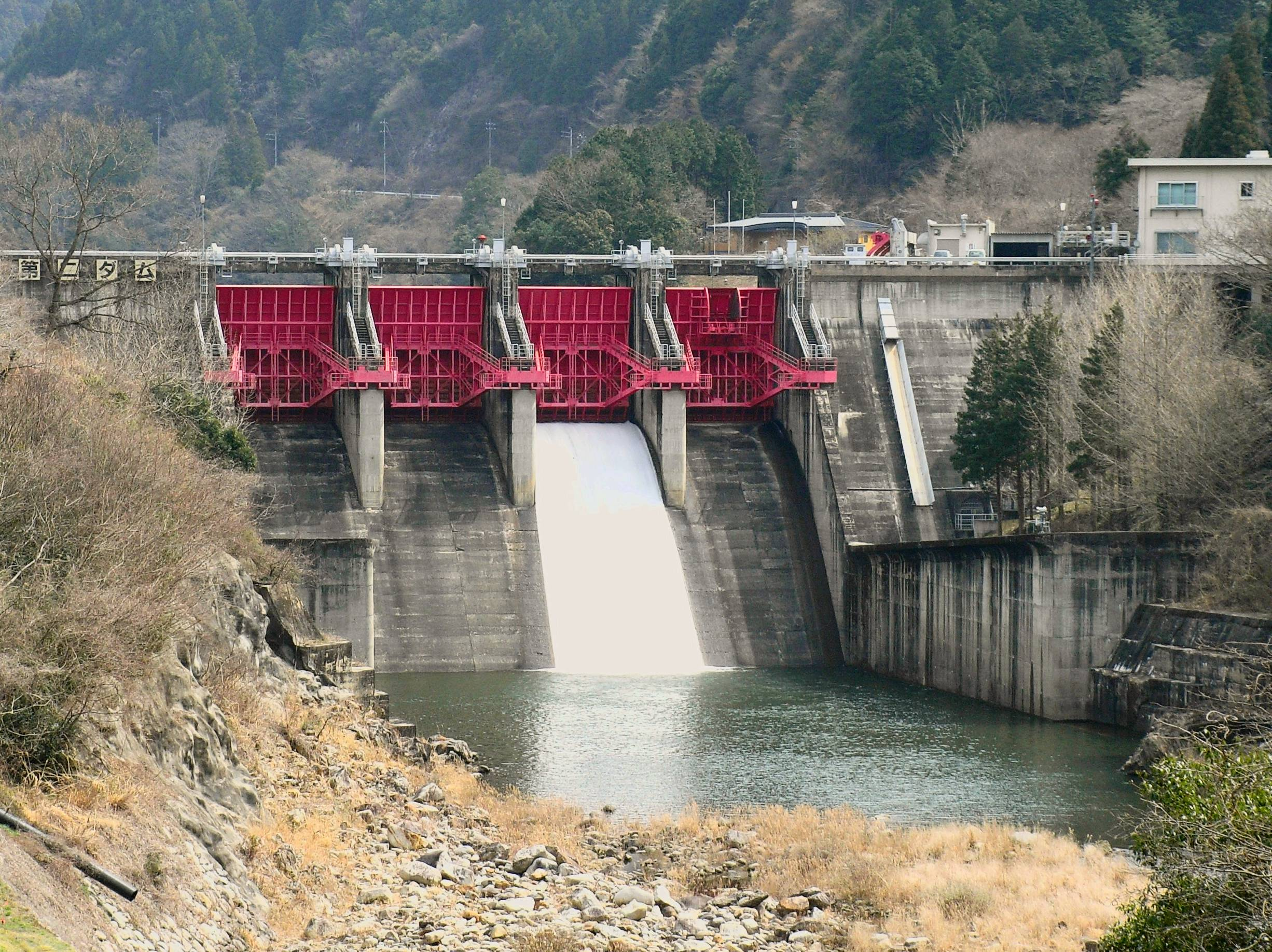 Yahagi II Dam.